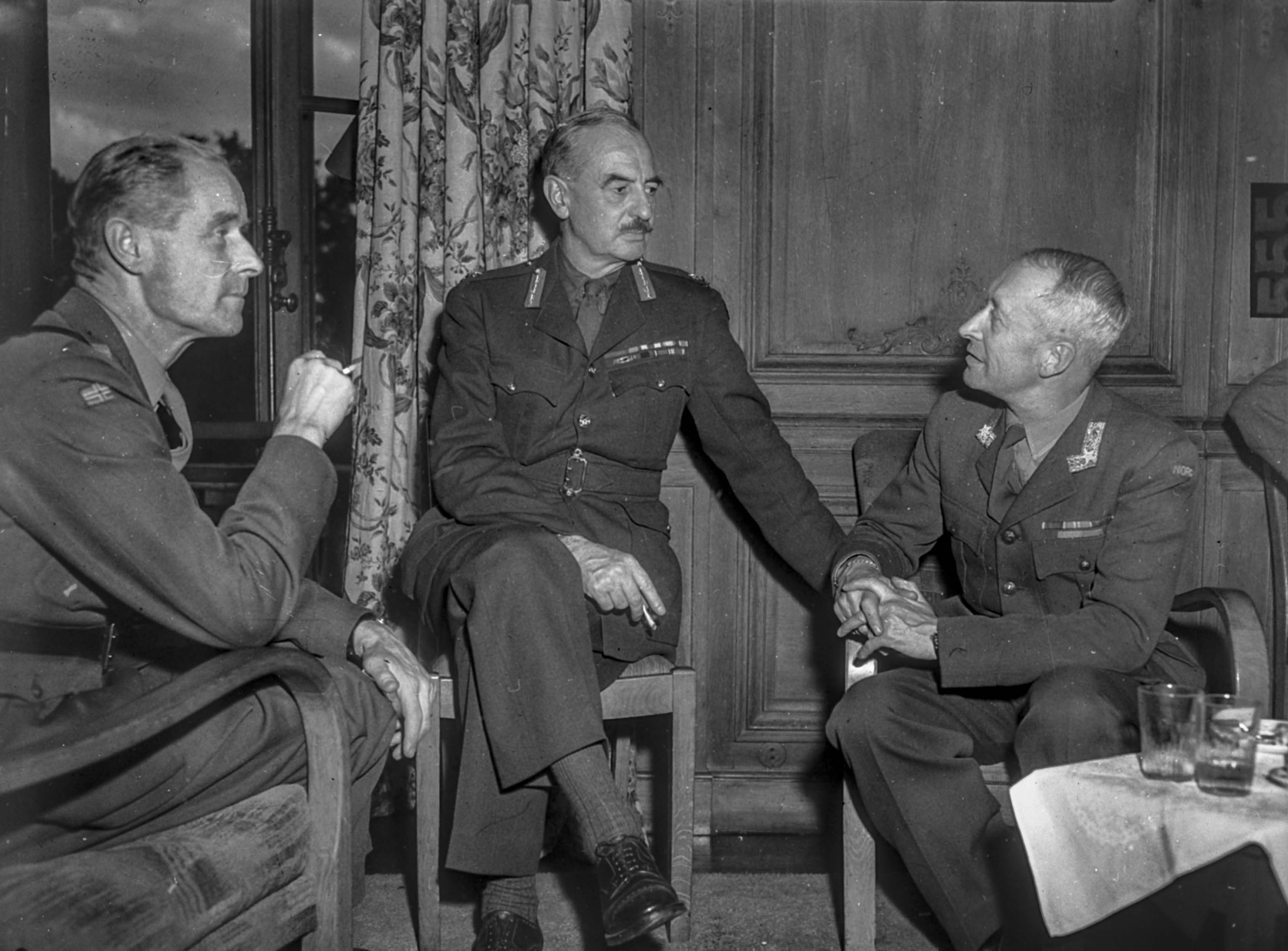 Photos from Flickr album "Evakueringen og frigjøringen av Finnmark" (The Evacuation and Liberation of Finnmark, 2015) ny Riksarkivet (National Archives of Norway). Towards the end of World War II, with Operation Nordlicht, the Germans used the scorched earth tactic in Finnmark and northern Troms to halt the Red Army. As a consequence of this, few houses survived the war, and a large part of the population was forcefully evacuated further south (Tromsø was crowded), but many people avoided evacuation by hiding in caves and mountain huts and waited until the Germans were gone, then inspected their burned homes. There were 11,000 houses, 4,700 cow sheds, 106 schools, 27 churches, and 21 hospitals burned. There were 22,000 communications lines destroyed, roads were blown up, boats destroyed, animals killed, and 1,000 children separated from their parents. However, after taking the town of Kirkenes on 25 October 1944 (as the first town in Norway), the Red Army did not attempt further offensives in Norway. The town was handed over to Norway as the war ended. When war was over, more than 70,000 people were left homeless in Finnmark. The government imposed a temporary ban on residents returning to Finnmark because of the danger of landmines. The ban lasted until the summer of 1945 when evacuees were told that they could finally return home.